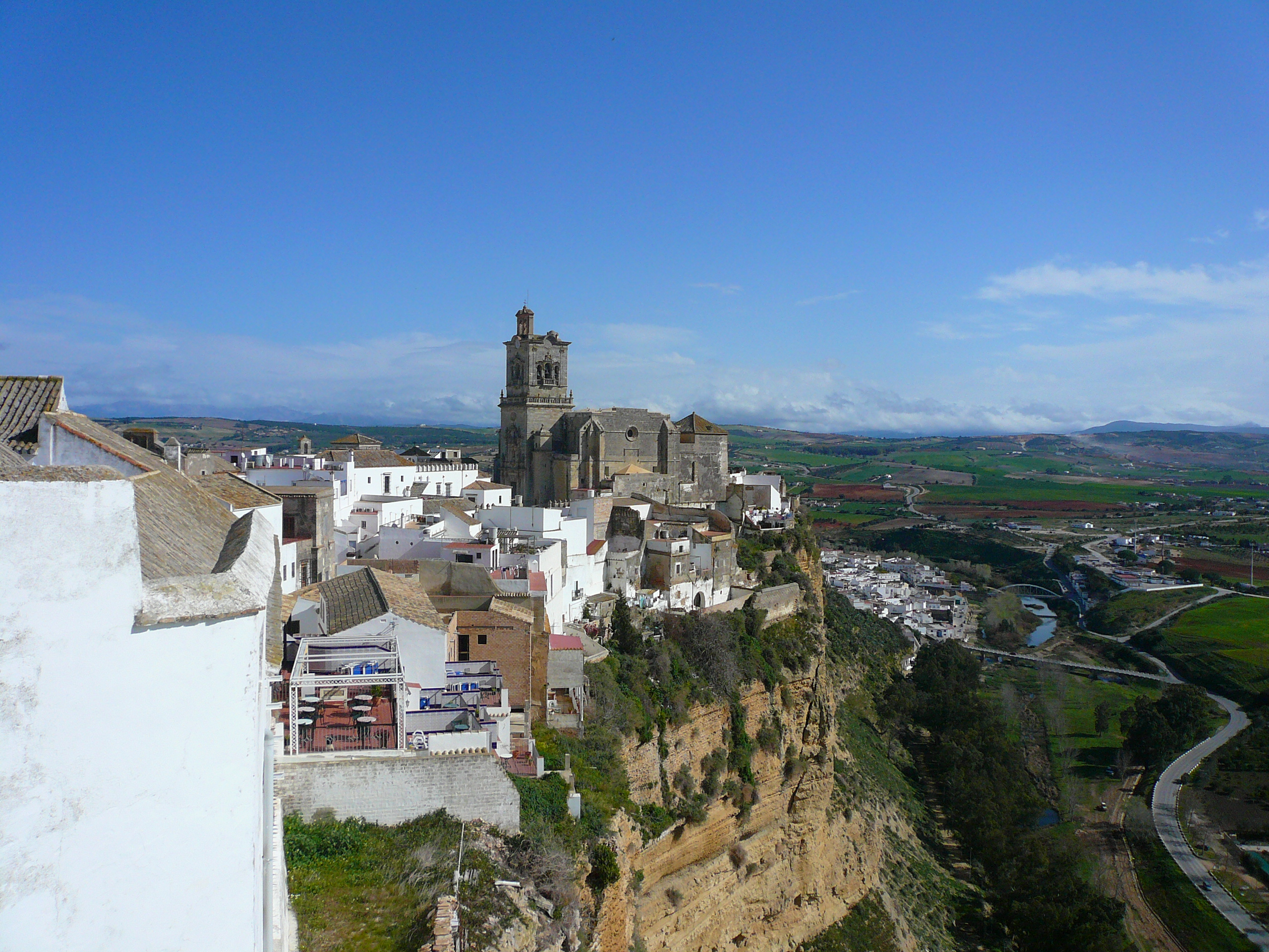 Arcos de la Frontera, Spain